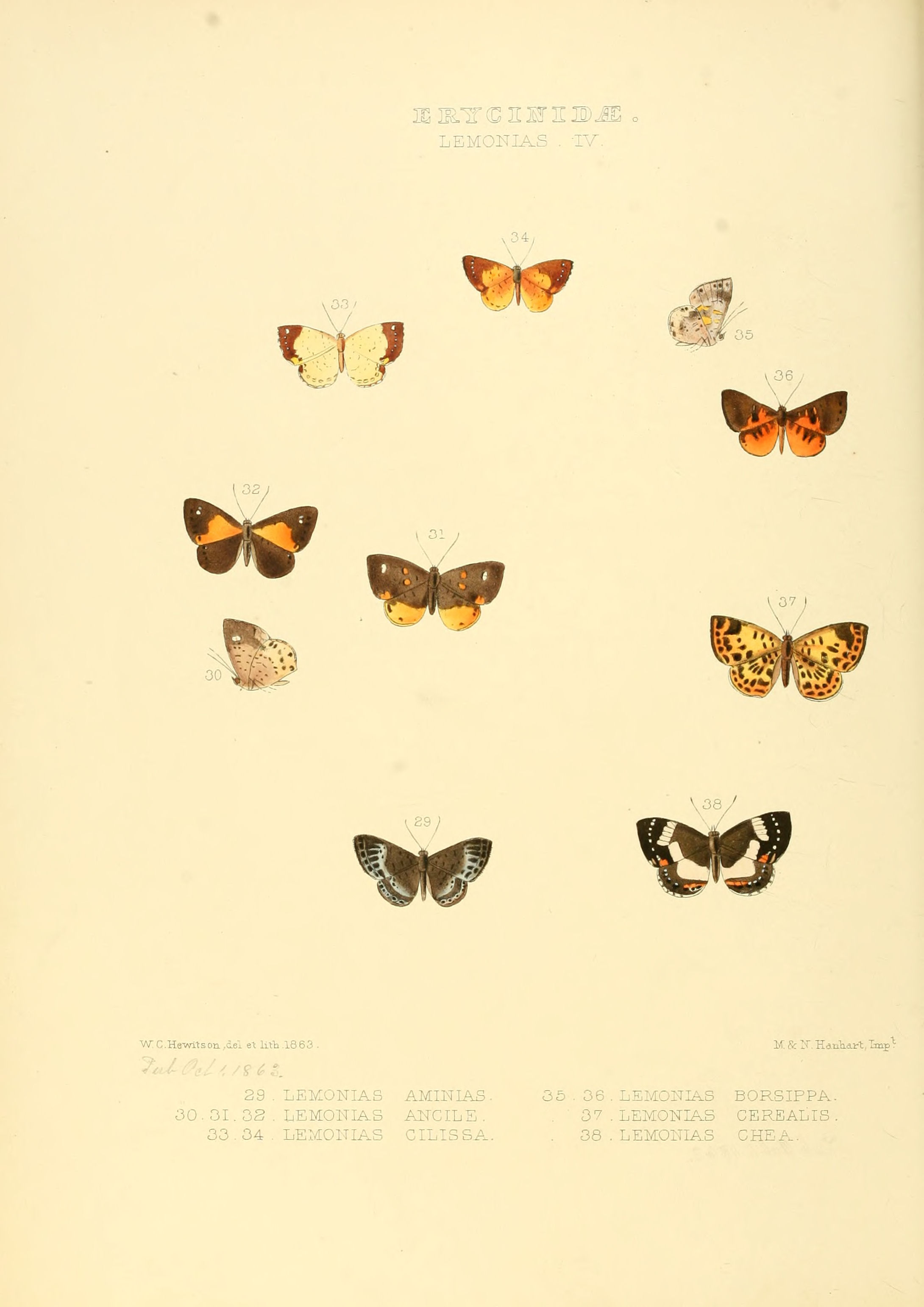 Plate: Lemonias IV Lemonias aminias. Fig. 29. Accepted as Livendula aminias (Hewitson, 1863). Lemonias ancile. Figs. 30, 31, 32. Accepted as Calospila parthaon (Dalman, 1823). Lemonias cilissa. Figs. 33,34. Accepted as Calospila cilissa (Hewitson, 1863). Lemonias borsippa. Figs. 35, 36. Accepted as Adelotypa borsippa (Hewitson, 1863). Lemonias cerealis. Fig. 37. Accepted as Calospila cerealis (Hewitson, 1863). Lemonias chea. Fig. 38. Accepted as Lemonias zygia Hübner, 1807.